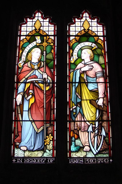 "Faith" and "Hope" in stained glass, Llandenny church